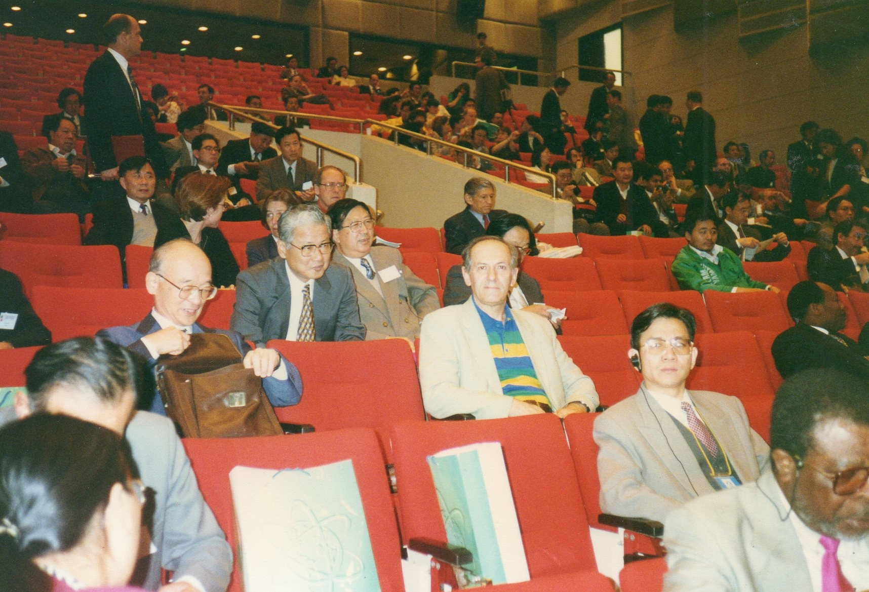 International Institute of Administrative Sciences international conference in Beijing